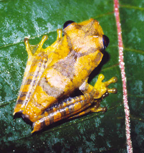 Hypsiboas geographicus